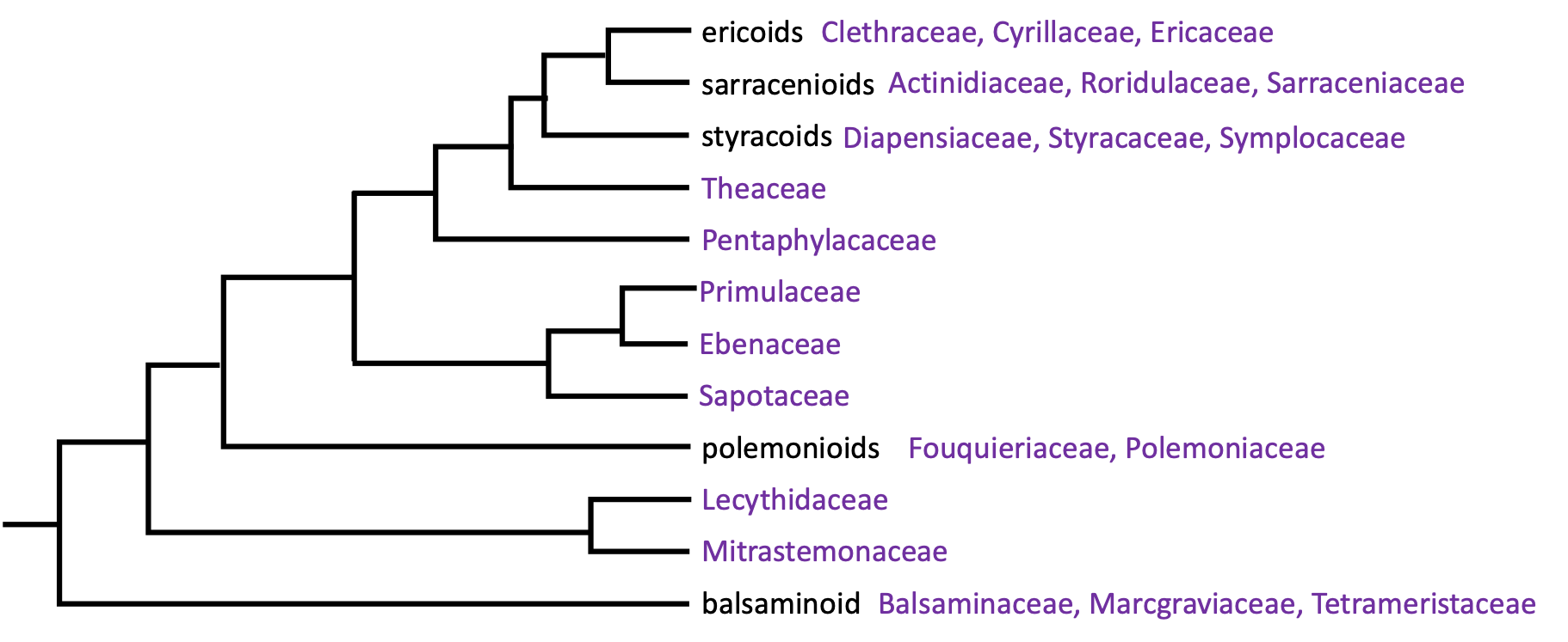 Based on Rose et al. 2018 Phylogeny